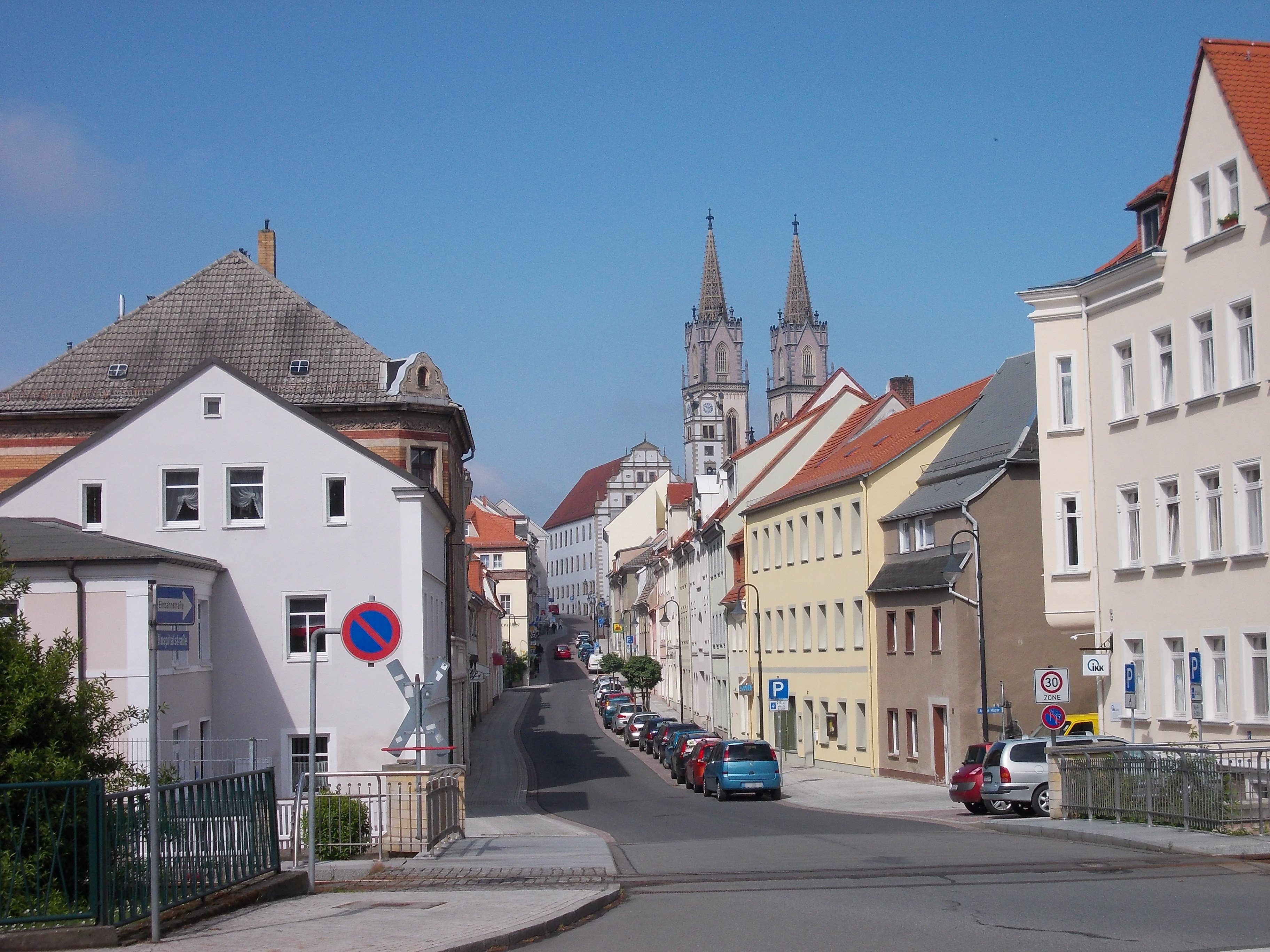 Hospitalstrasse in Oschatz (Nordsachsen district, Saxony)